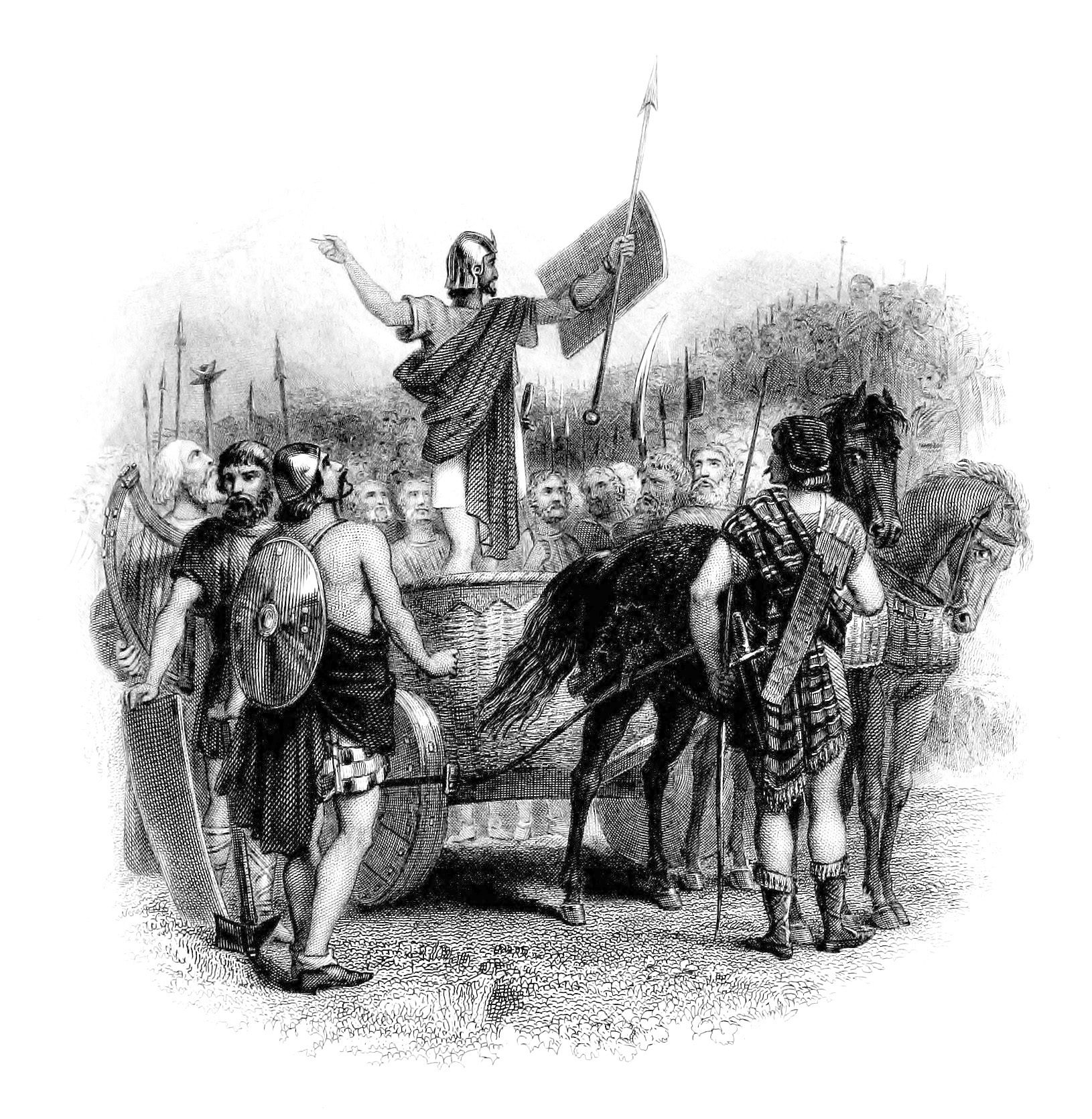 Steel engraving of a sketch depicting the speech of Calgacus before the Caledonians at the Battle of Mons Graupius.